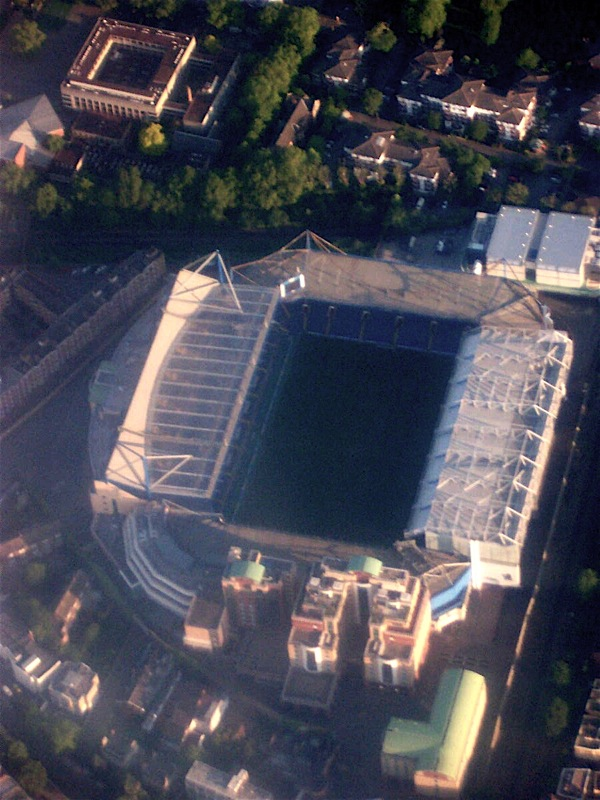 An aerial shot of Stamford Bridge home of English premier league club Chelsea F.C.